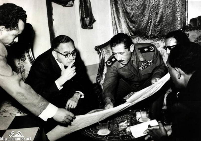 Abdel_Hakim_Amer_in_sanaa